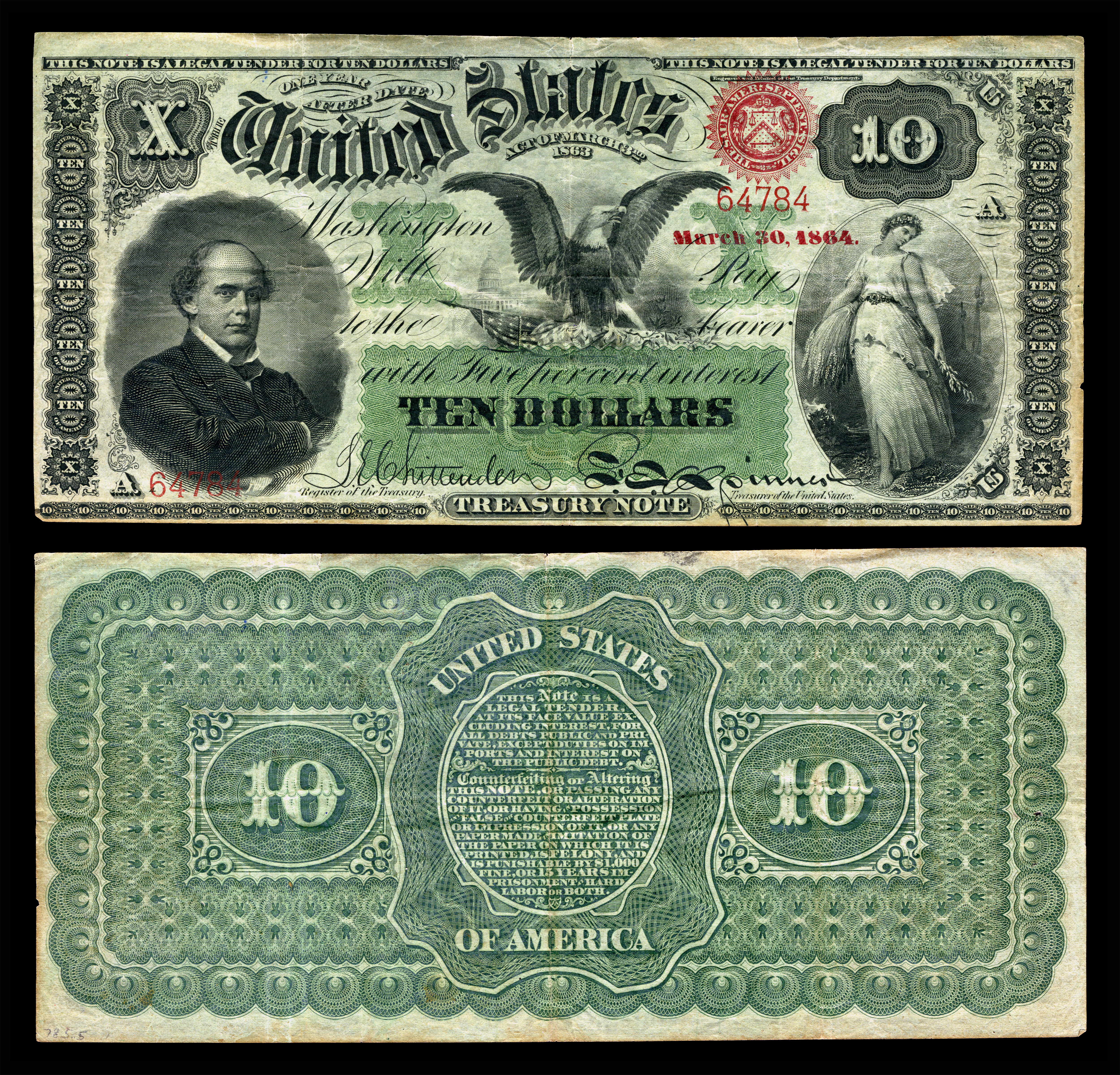 $10 one-year Interest Bearing Note (1864), 5% interest, paid at maturity.